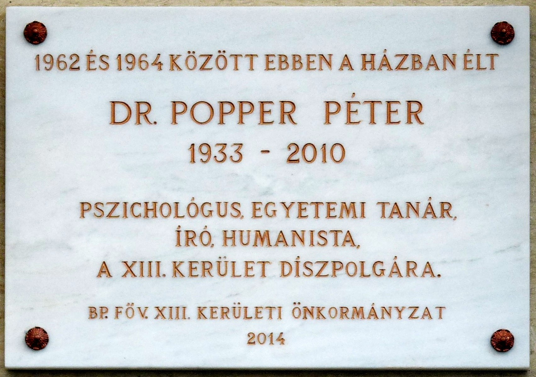 Commemorative plaque to Mr. Péter Popper (1933–2010) psychologist, psychotherapist, clinical child psychologist and university professor, freeman of the 13th district of Budapest. It is affixed to the front of the building where he lived between 1962 and 1964. Its unveiling took place November 19, 2014. (Budapest, District XIII, Csanády Street Nr 22)